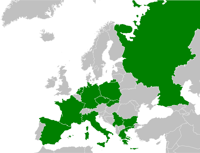 National volleyball teams which played in 2003 Men's European Volleyball Championship